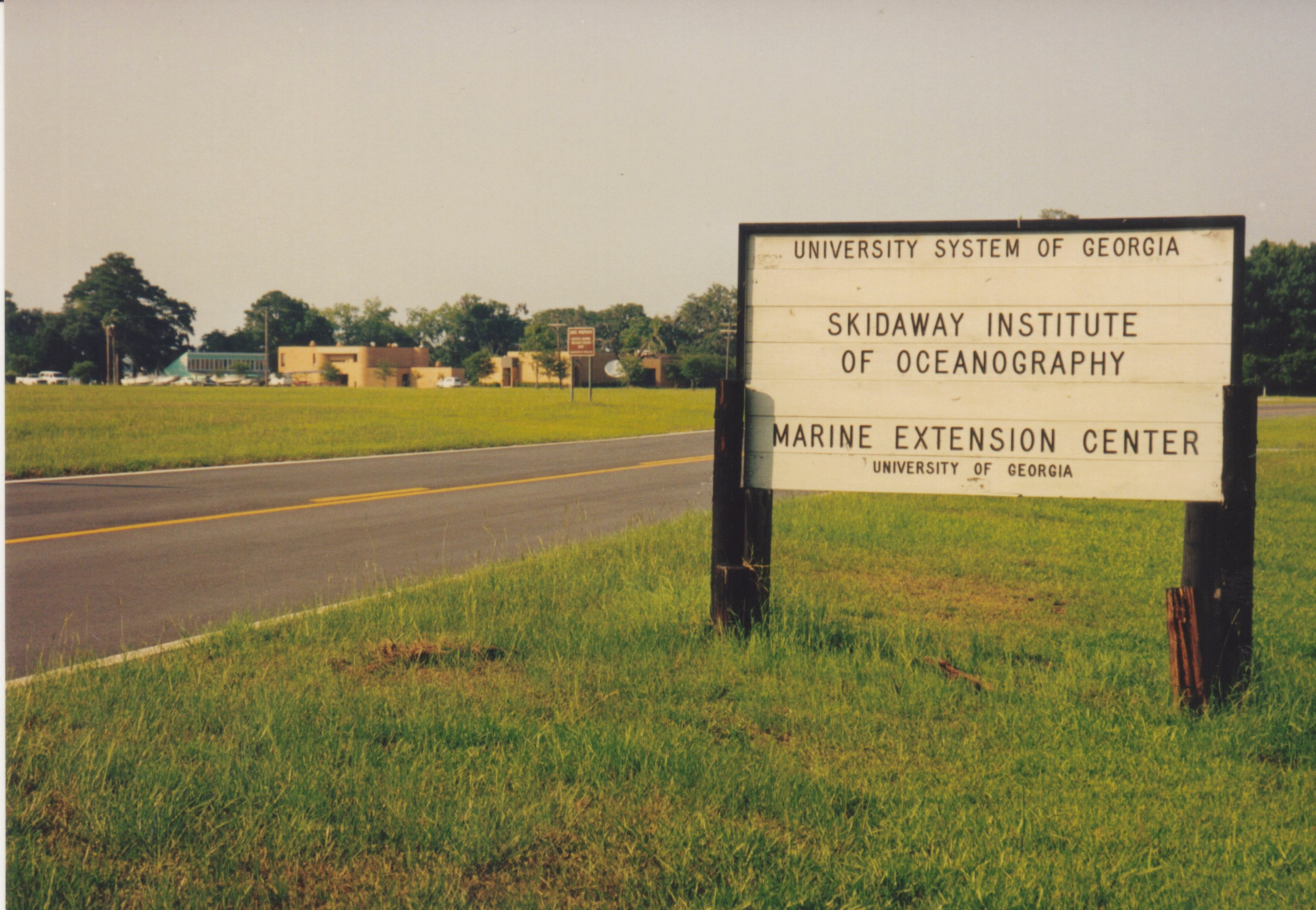 Main entrence to the Skidaway Institute of Oceanography